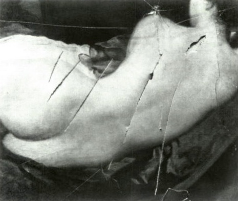 Detail from a photo published in 1914 (before the repairs) showing damage done to Rokeby Venus by Mary Richardson